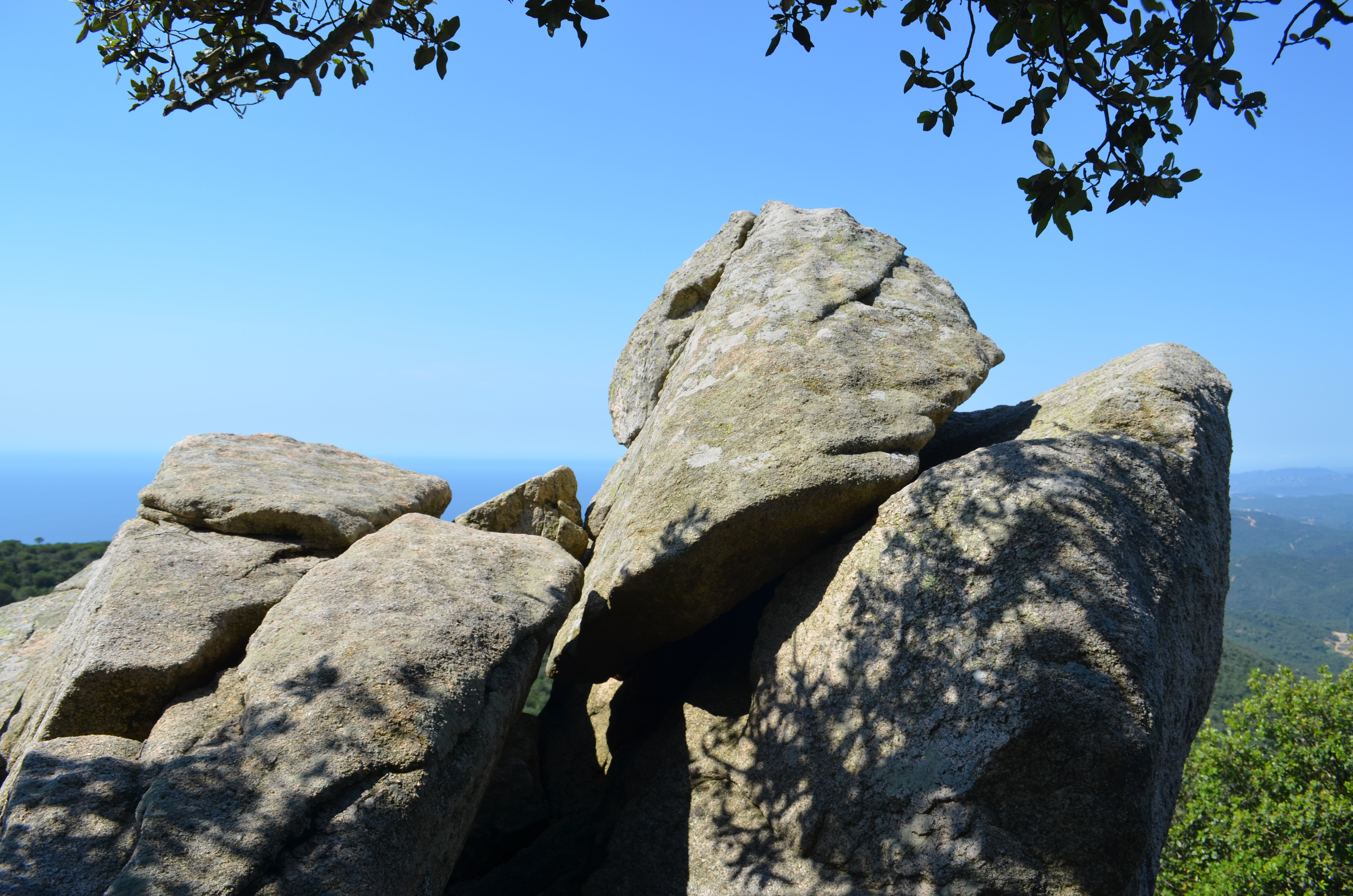 Puig de les Cadiretes, summit